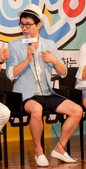 Park Seongho in press conference from Acrofan